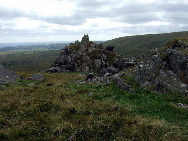 Carn Meini/Menyn This tor has two names: Carn Meini means Cairn of the Stones, and Carn Menyn, Butter Cairn, which is thought to be the original one. Given that it is reputed to be the chief source of the bluestones used at Stonehenge, as well for countless local fenceposts and lintels, it is not surprising that the former name has also attached itself.